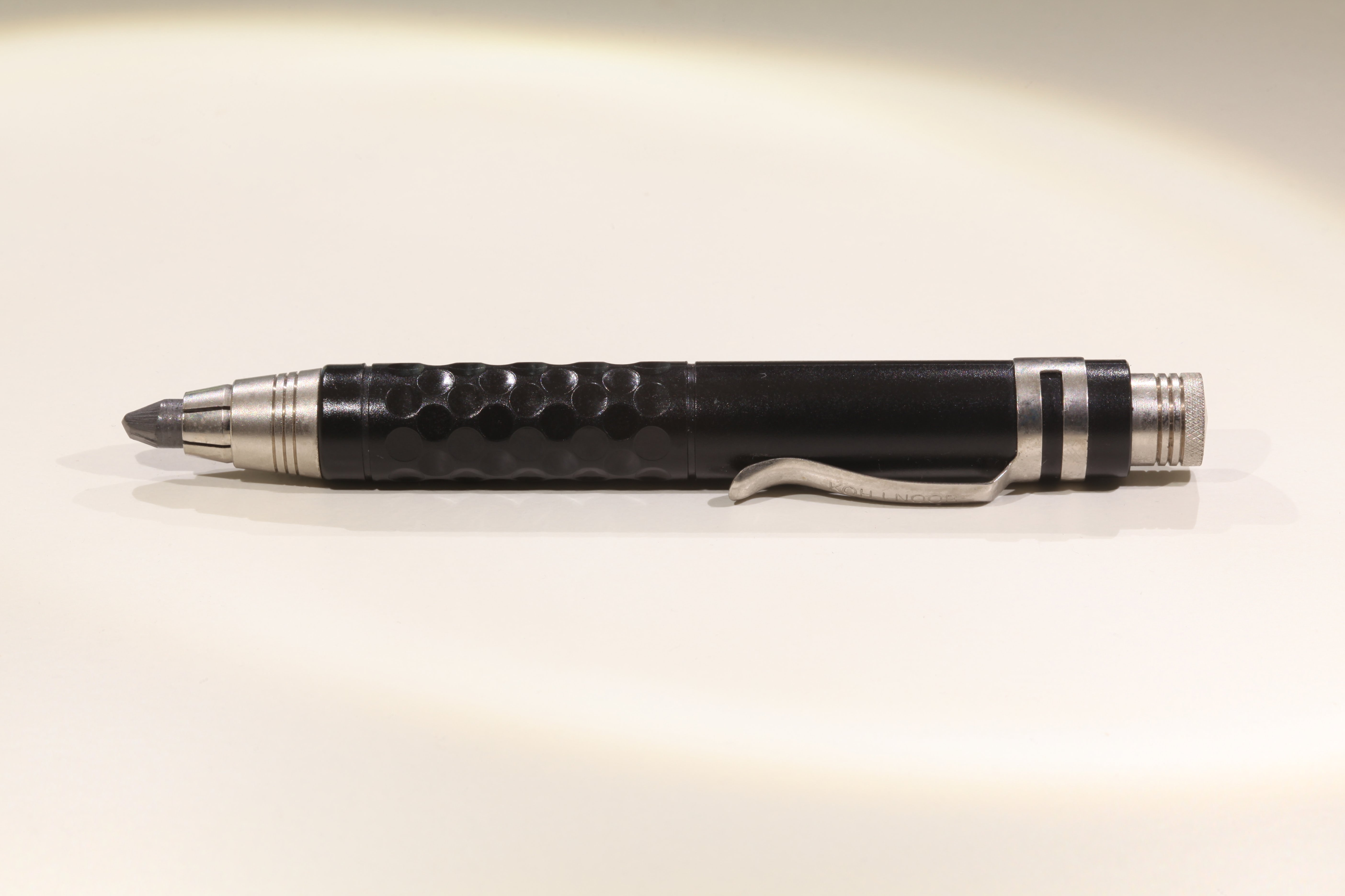 Charcoal pencil